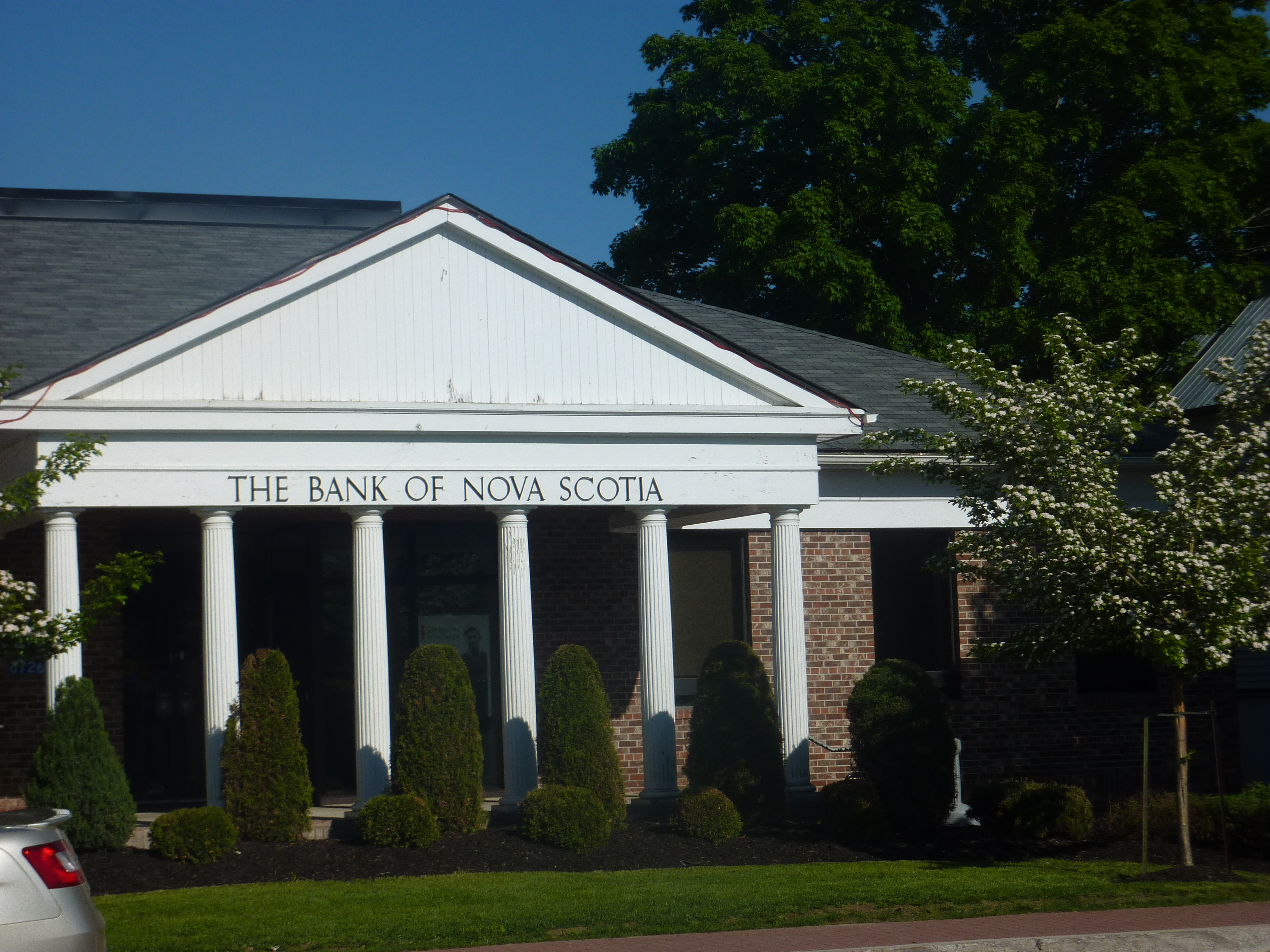 Florenceville-Bristol Scotia Bank, New Brunswick